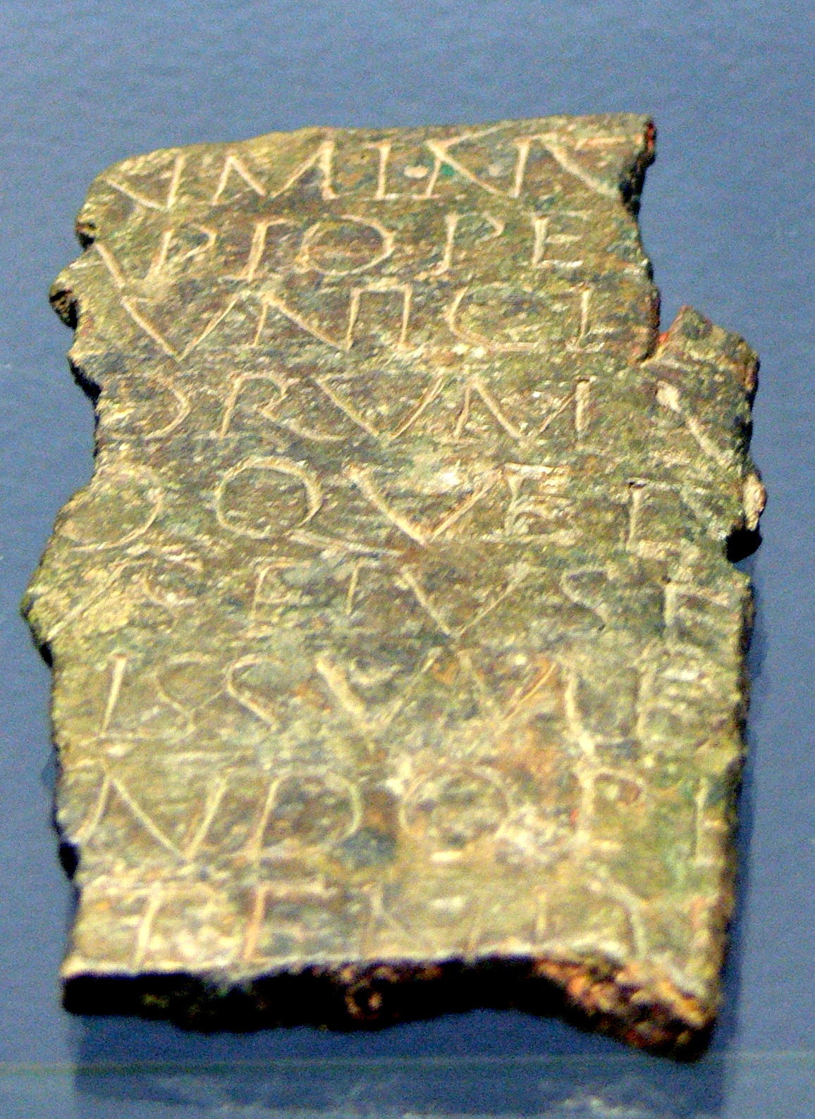 Enns ( Upper Austria ). Museum Lauriacum: Bronze fragment of a city law ( 3rd century AD ).